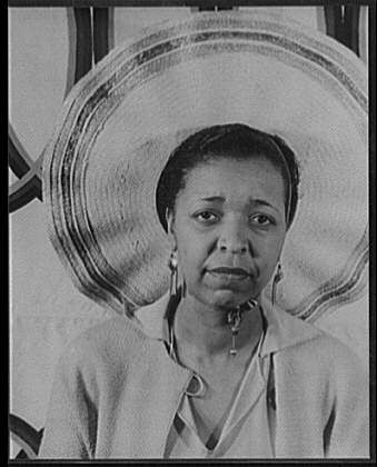 Title: Portrait of Ethel Waters Abstract/medium: 1 photographic print : gelatin silver.